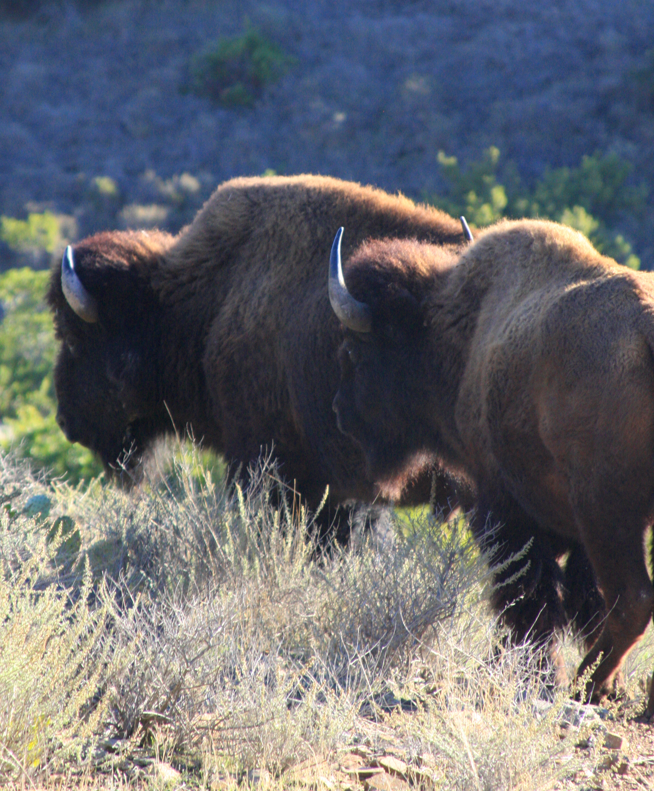 My first bison photo, taken through the window of our vehicle. Catalina Island, CA